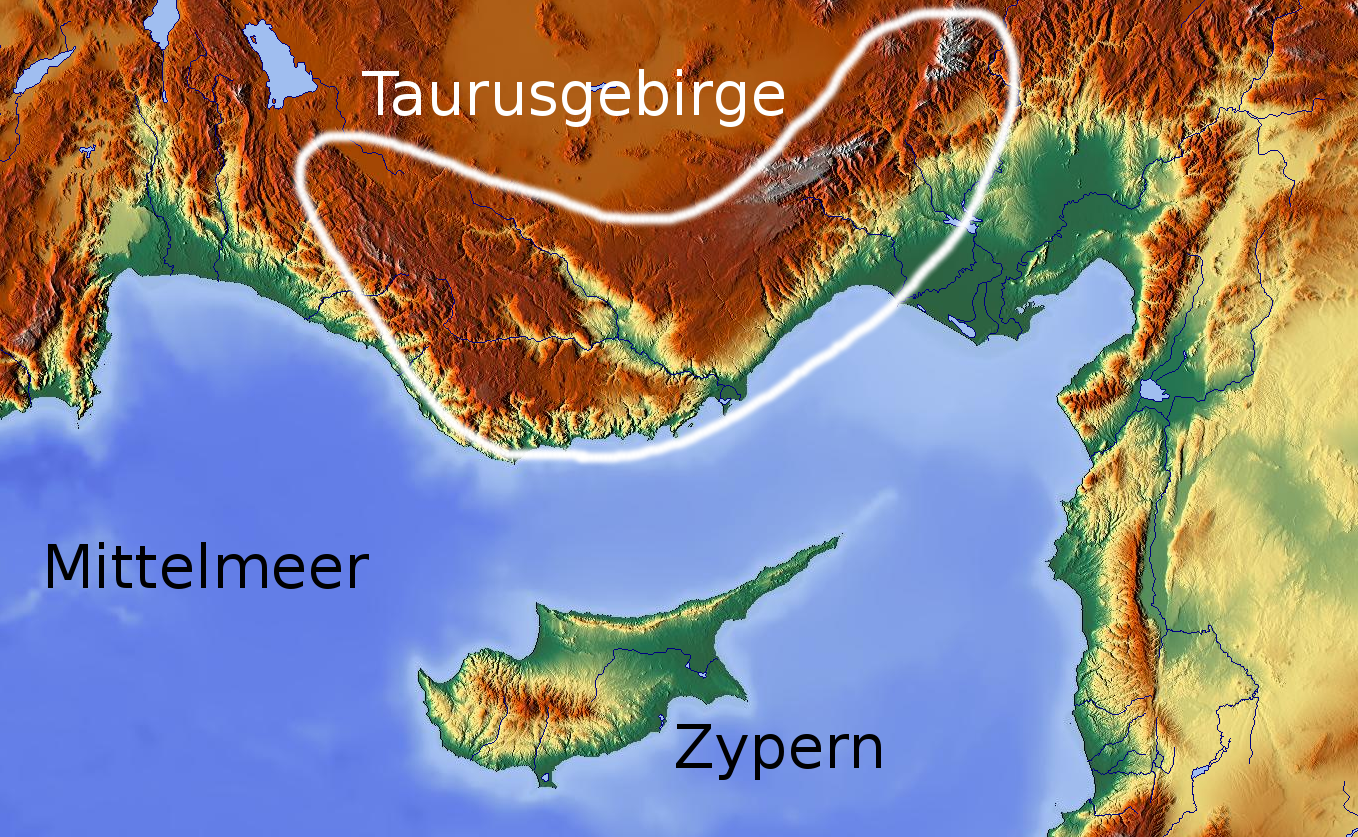 Maps of Turkey; Taurusgebirge, Toros Daglari, from